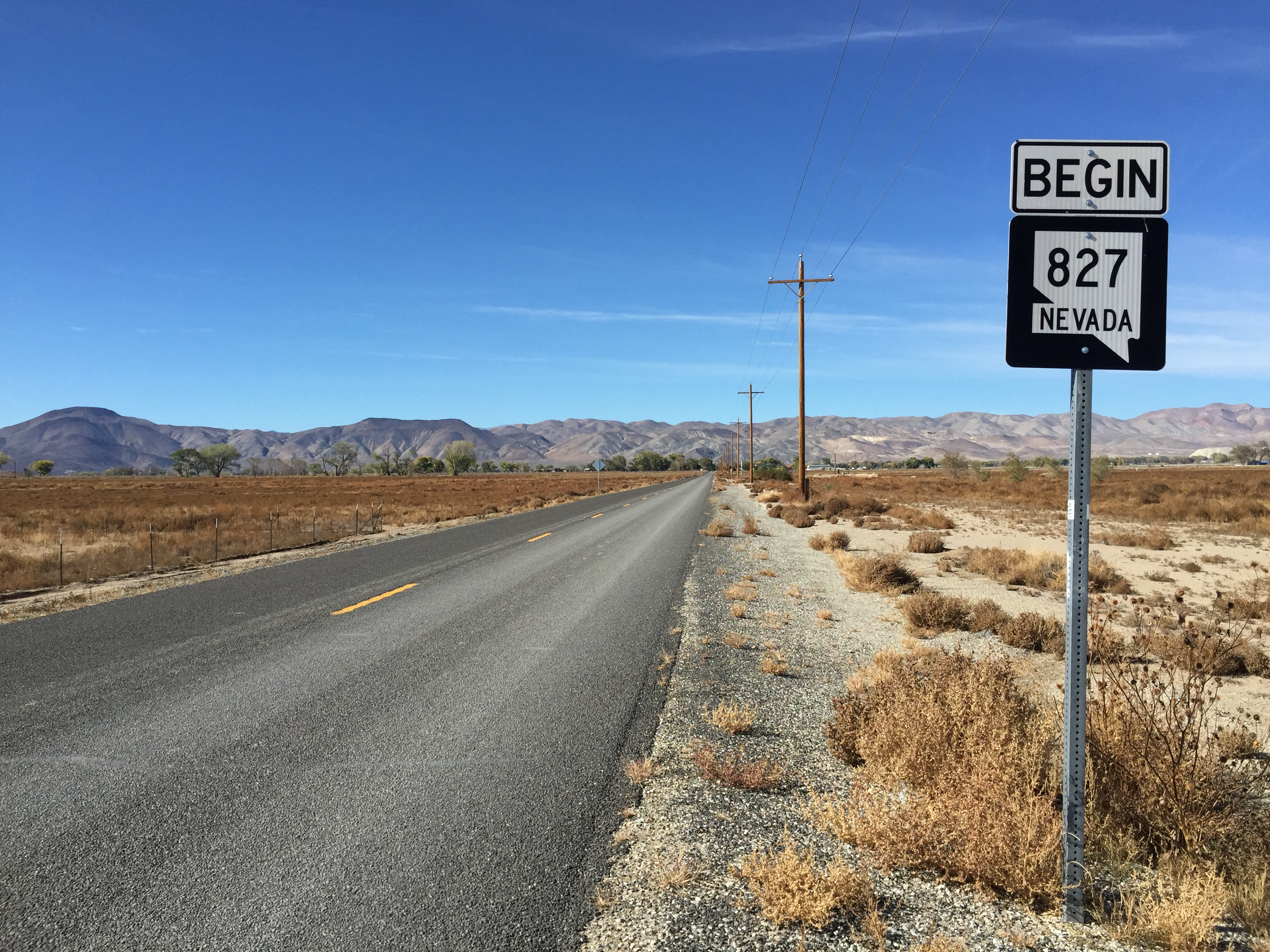 View west from the east end of Nevada State Route 827 (East Purcel Lane) in Lyon County, Nevada